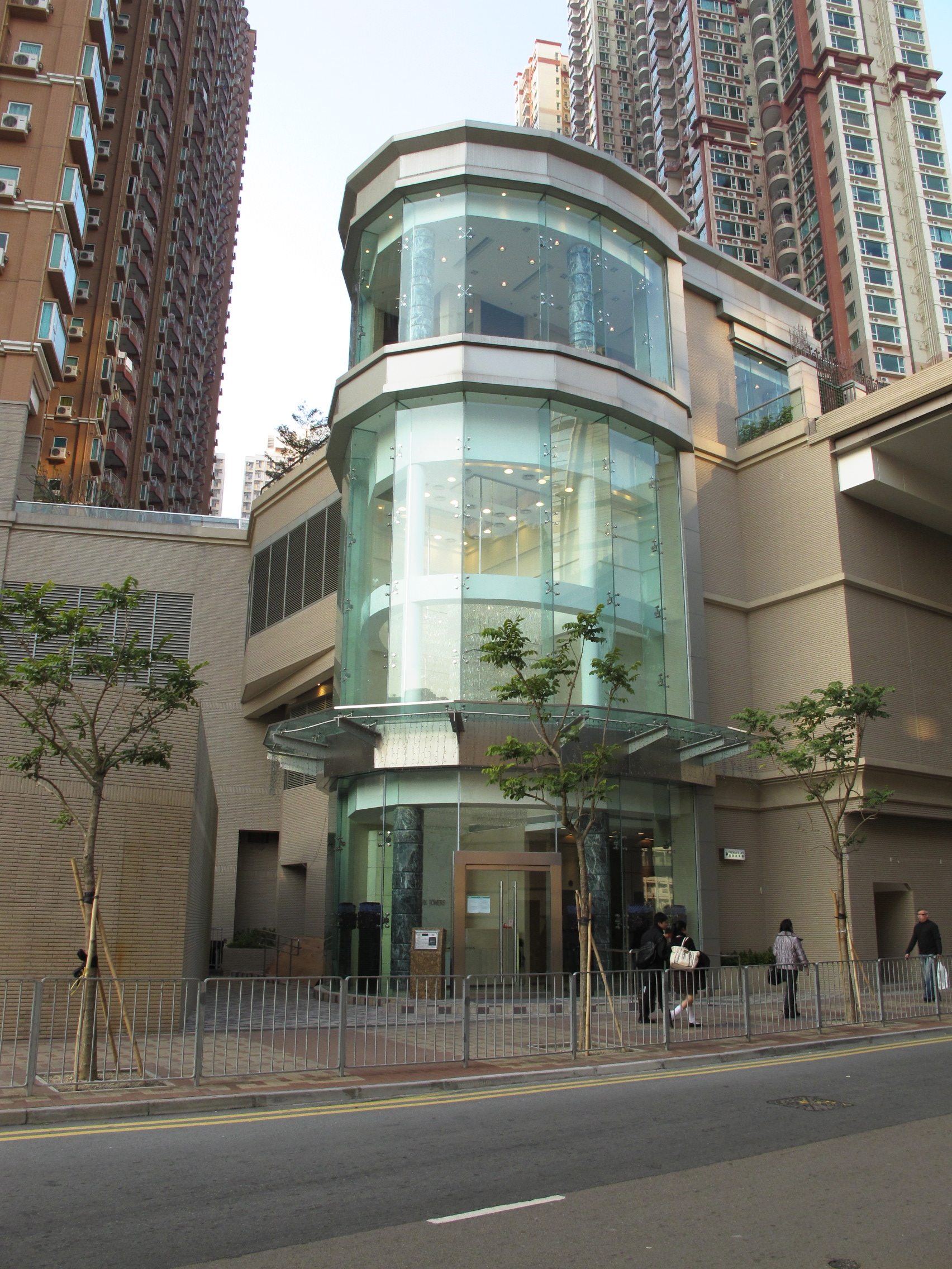 Central Park Towers Main Lobby